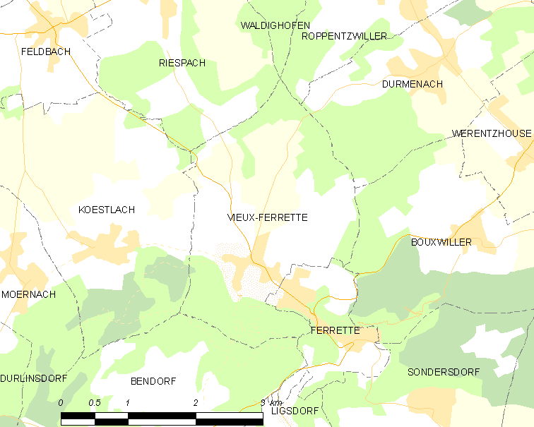 Map of French municipality